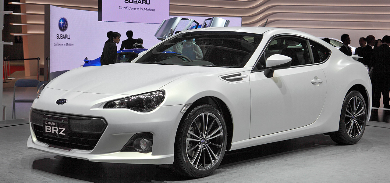 Subaru BRZ (Tokyo Motor Show 2011)